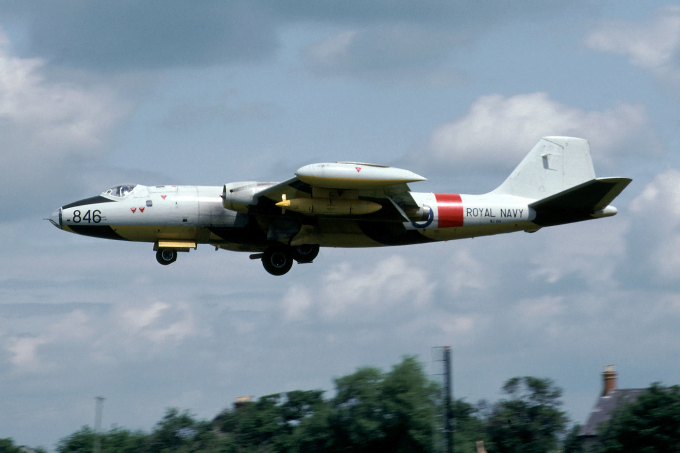 WJ614 on final approach, Yeovilton, July 1985.